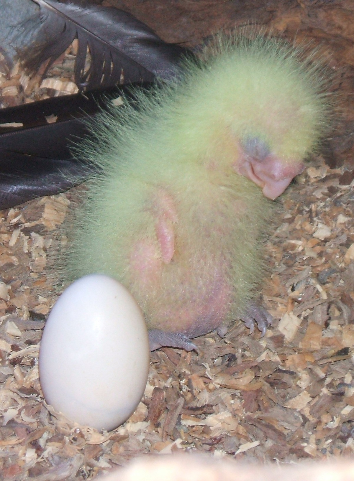 Red Tail Black Cockatoo at one week old